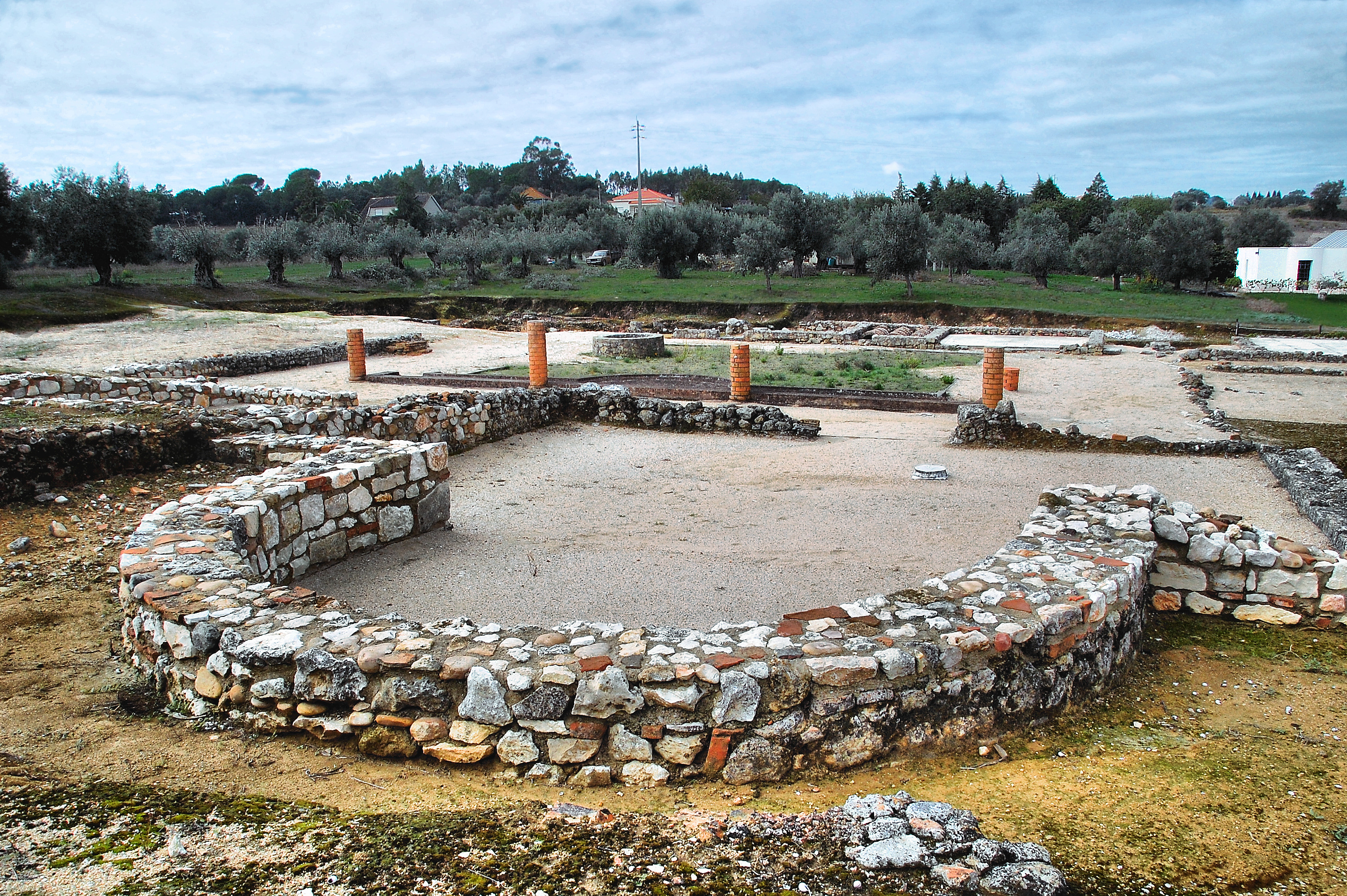 Vila Cardílio is a Roman ruin in central Portugal, located approximately 3 km outside of Torres Novas.